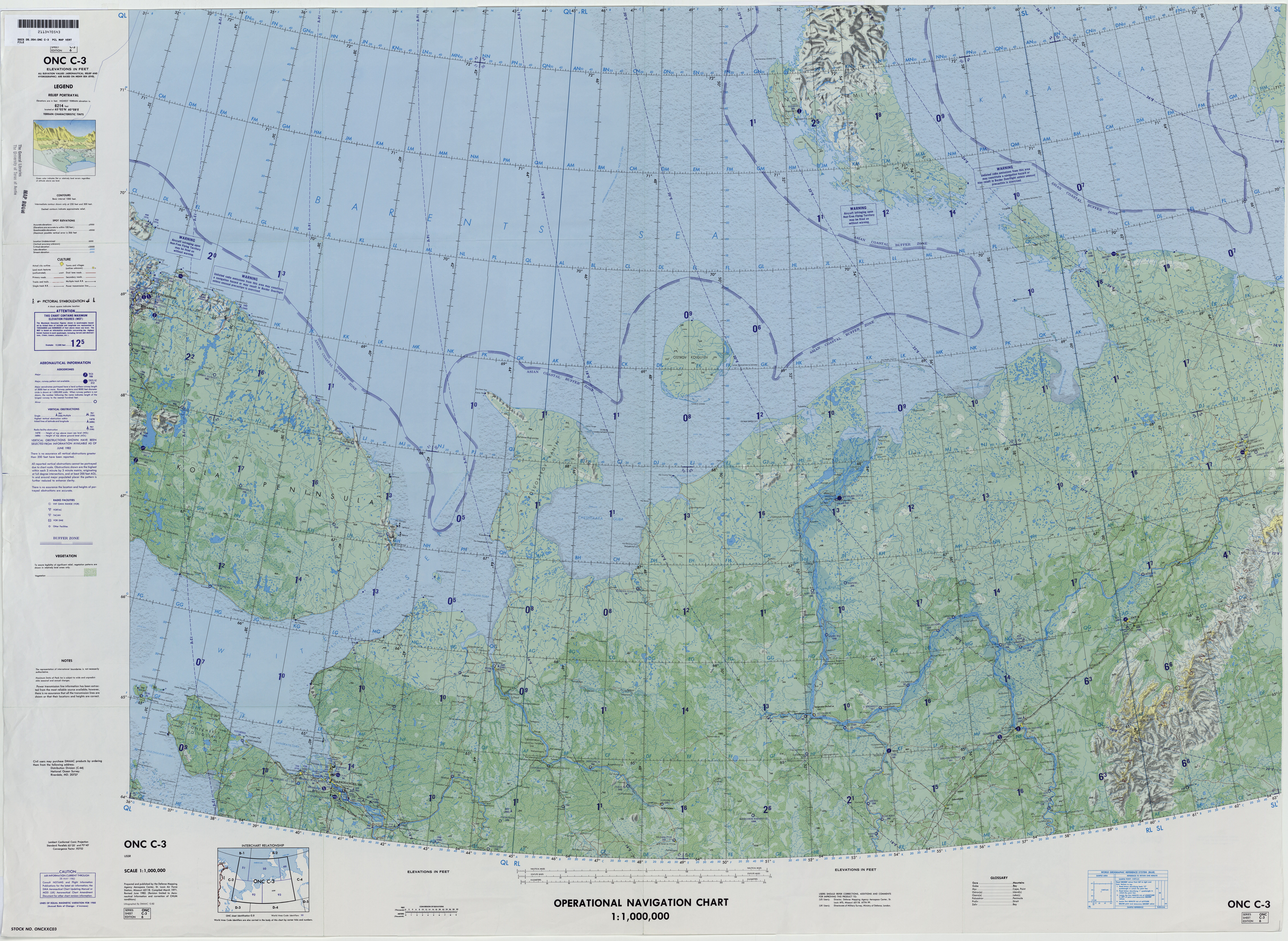 1:1,000,000 scale Operational Navigation Chart, Sheet C-3, 6th edition. Covers U.S.S.R. Lambert Conformal Conic Projection. Standard Parallels 65 20N and 70 40N. Center longitude 49 30E.